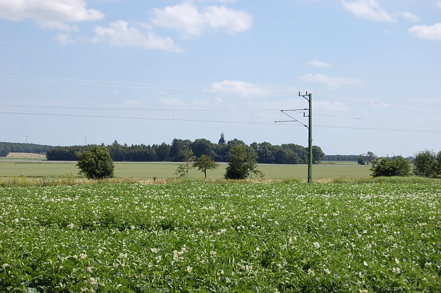 The former lake Vesan, now farmland, with the church of Gammalstorp on the former island